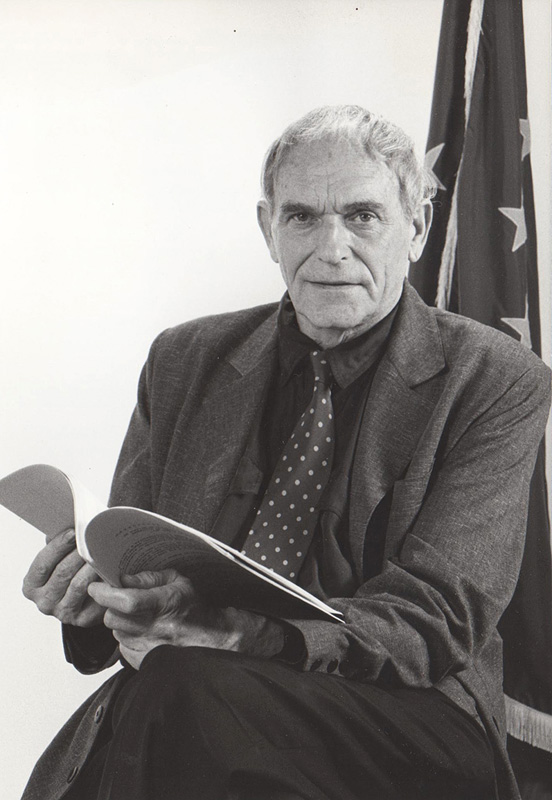 Svetlozar Raev